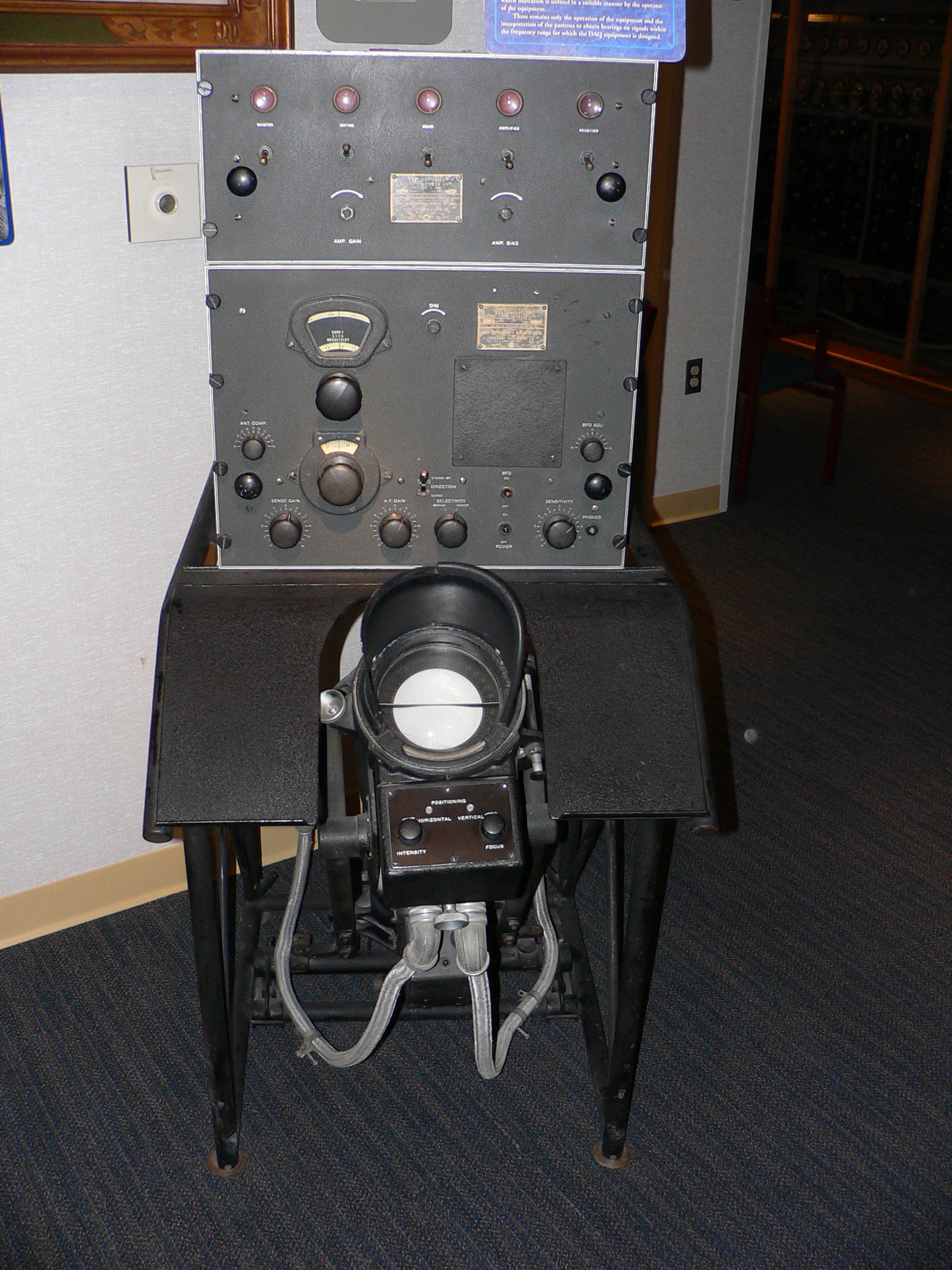 Pictures taken by myself at the US National Cryptologic Museum.